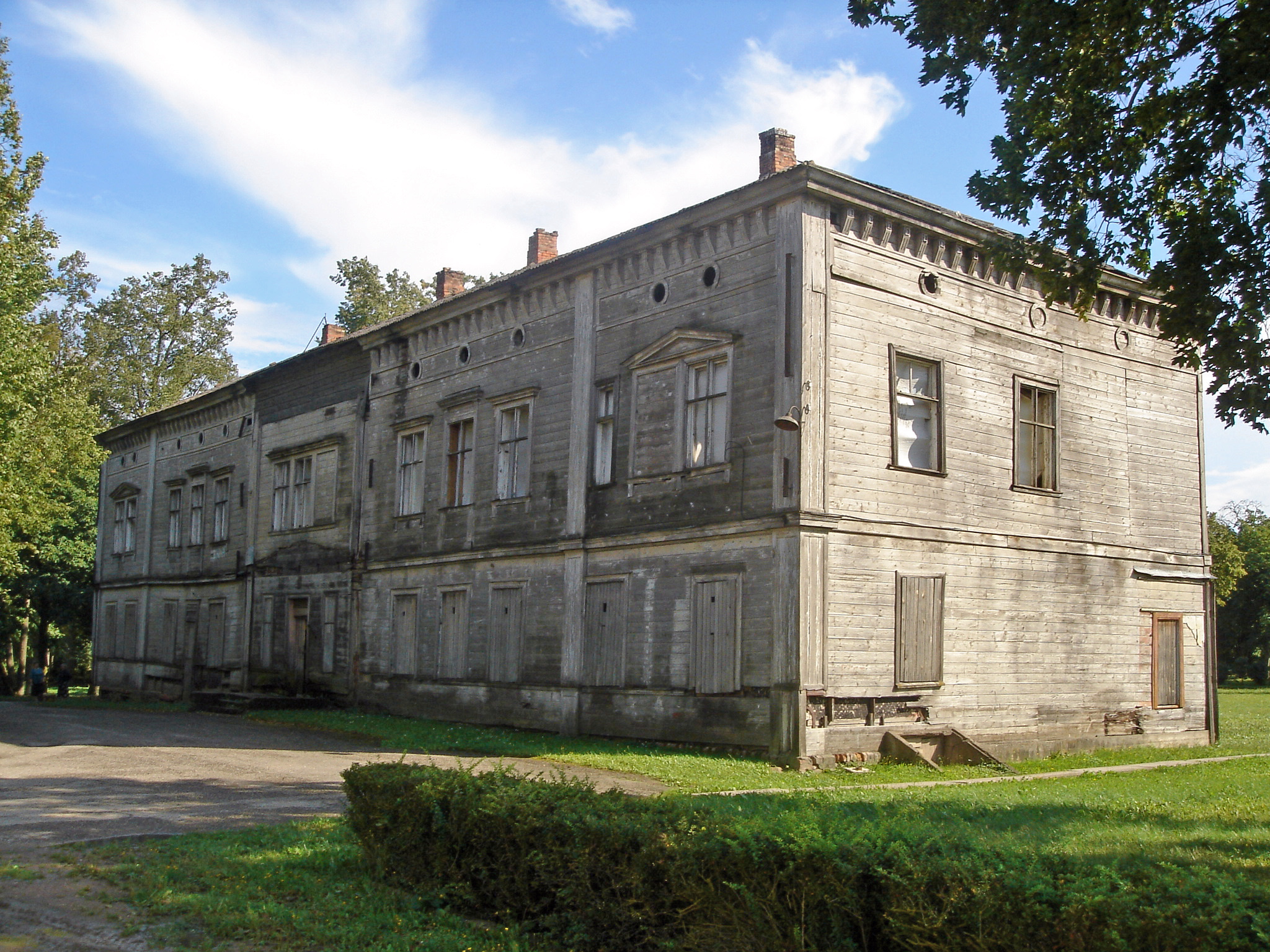 Bervircava manor. One of oldest wooden manors in Baltics (before AD1690, some details from 1500, abandoned)